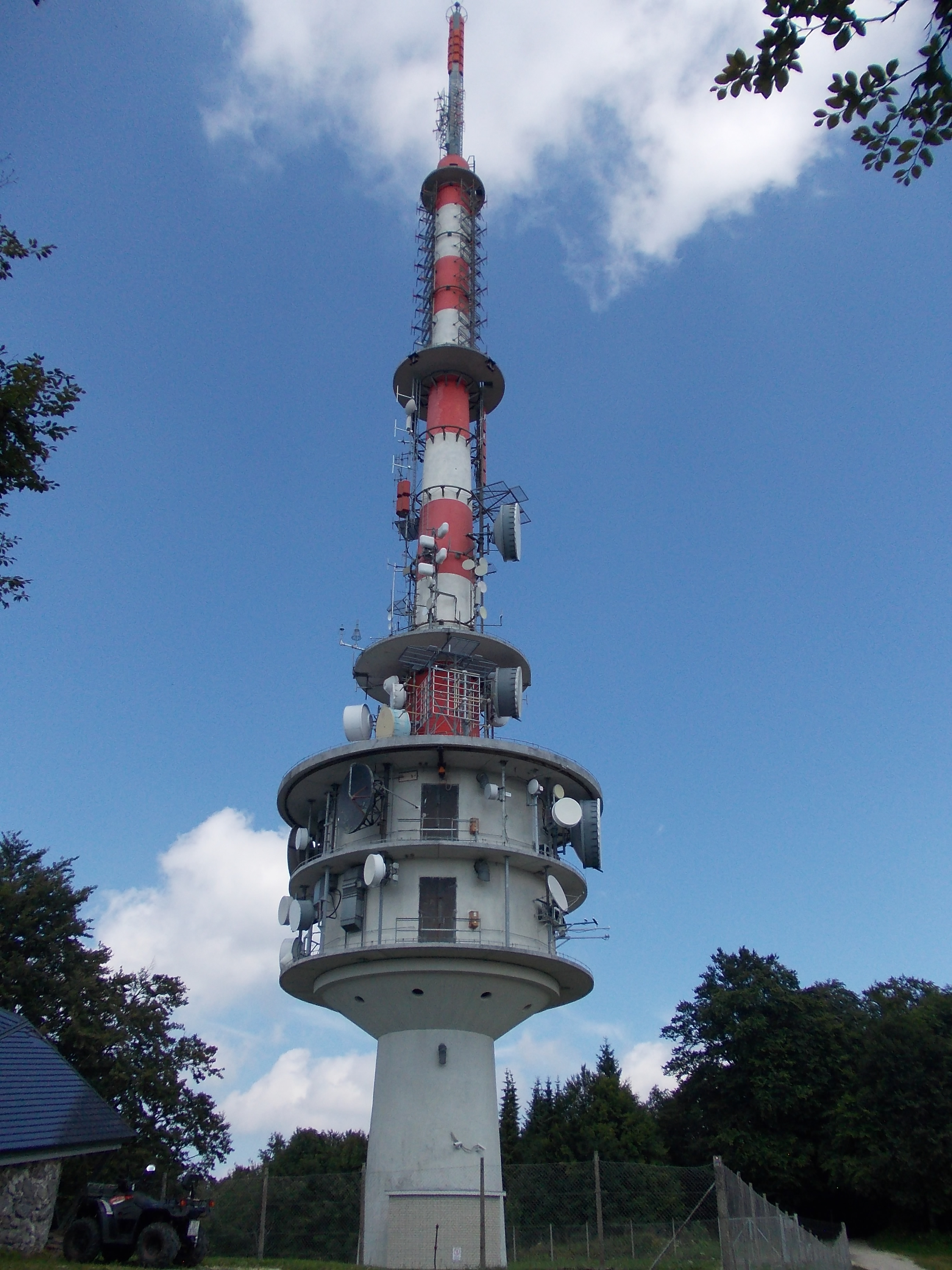 Trdinov vrh